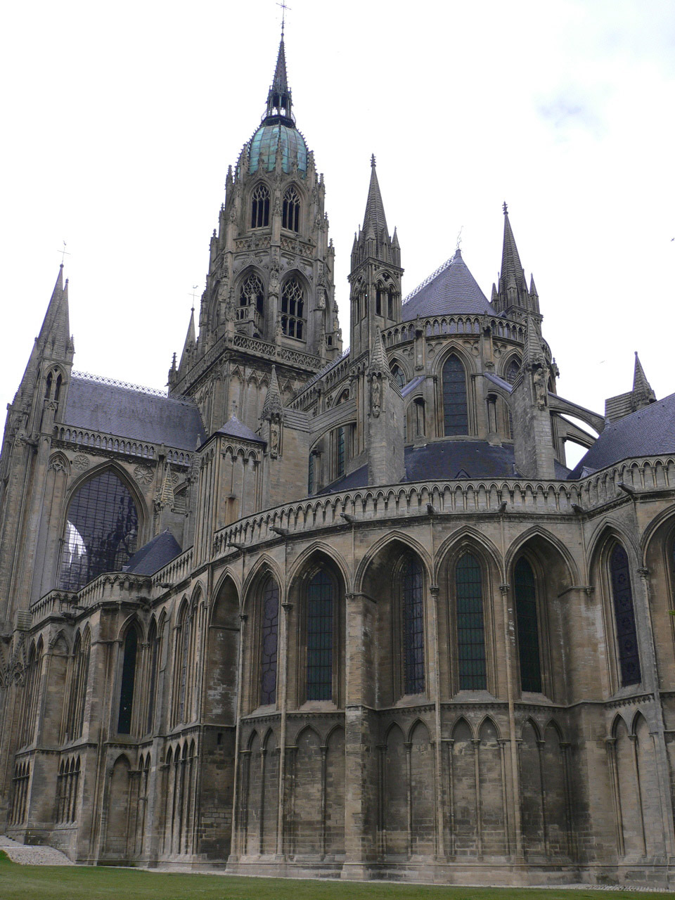 Bayeux Cathedral - Town of Bayeux, Normandy, France - 17 June 2005 - Photo taken by K. Johnson